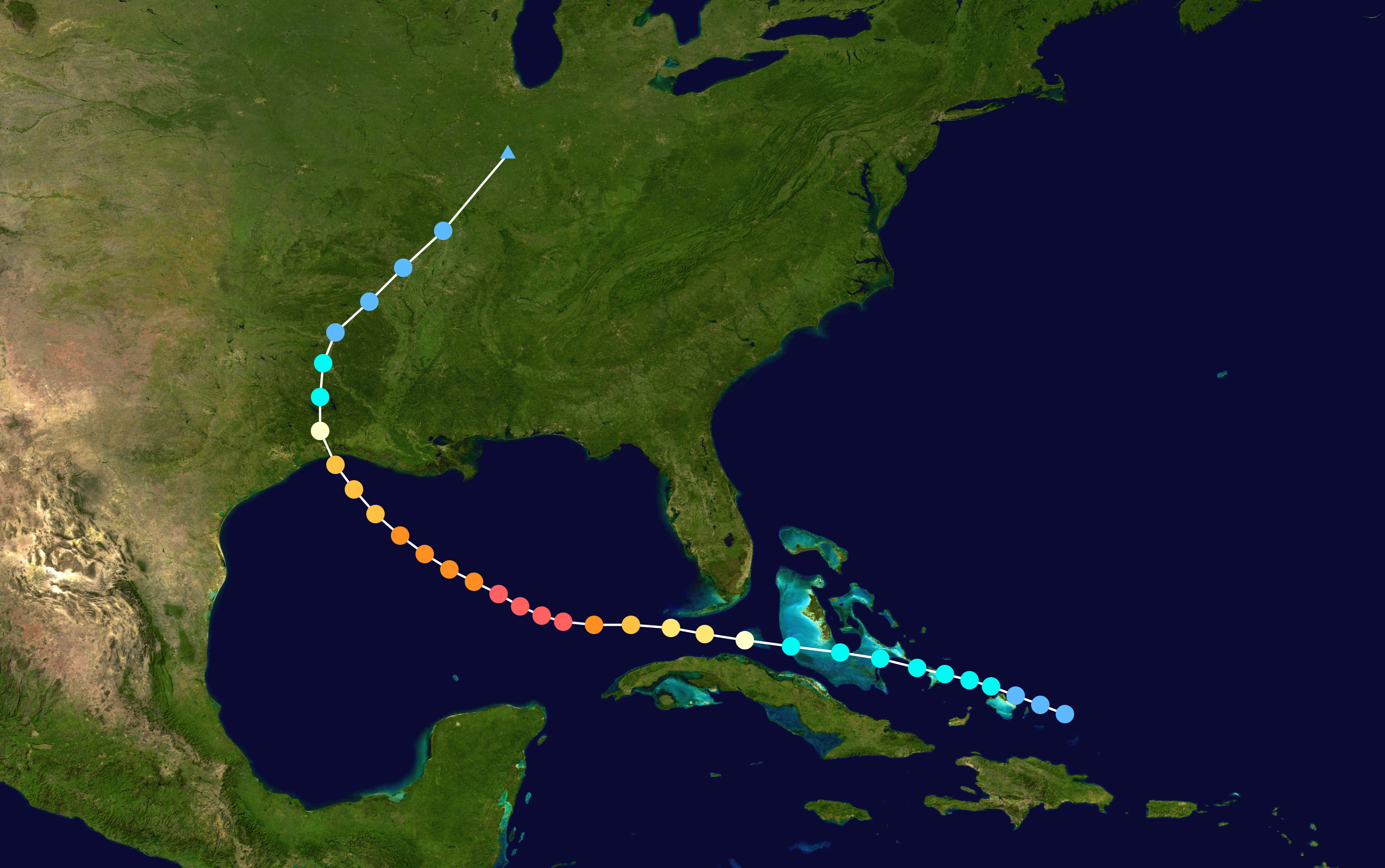 Track map of Hurricane Rita of the 2005 Atlantic hurricane season. The points show the location of the storm at 6-hour intervals. The colour represents the storm's maximum sustained wind speeds as classified in the Saffir–Simpson scale (see below), and the shape of the data points represent the nature of the storm, according to the legend below. Saffir–Simpson scale Tropical depression≤38 mph≤62 km/h Category 3111–129 mph178–208 km/h Tropical storm39–73 mph63–118 km/h Category 4130–156 mph209–251 km/h Category 174–95 mph119–153 km/h Category 5≥157 mph≥252 km/h Category 296–110 mph154–177 km/h Unknown Storm type Tropical cyclone Subtropical cyclone Extratropical cyclone / Remnant low / Tropical disturbance / Monsoon depression